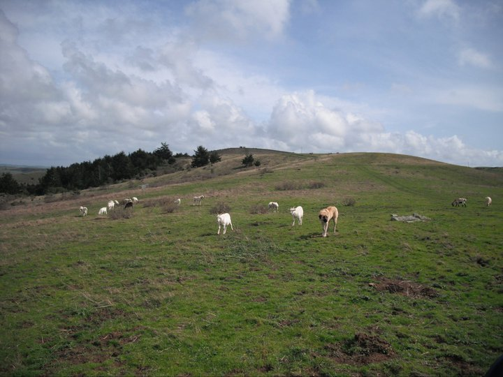 A modern Anatolian Shepherd dog performing traditional work guarding a goat herd in the US. Anatolian Shepherd